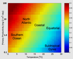 Own work